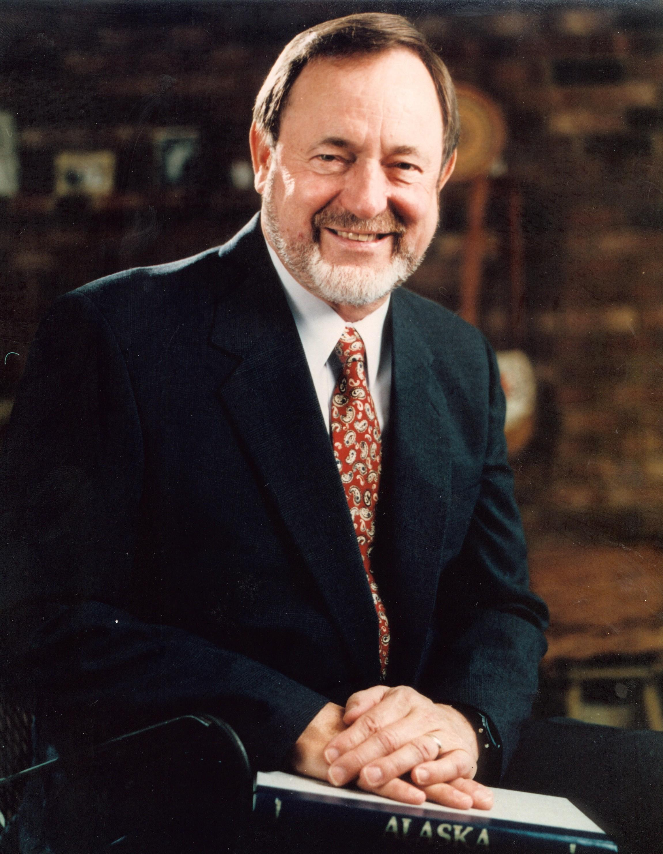 Don Young, U.S. Congressman.